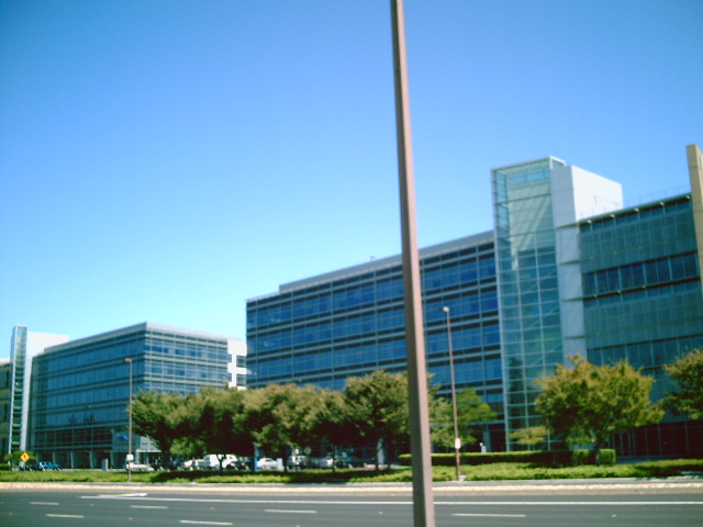 This property is called the "Towers at Great America", located adjacent to its namesake in Santa Clara, CA. It once served prominently as the US campus of Nortel until the company went into liquidation. Avaya moved into Nortel's former offices and also acquired much of Nortel's assets in its liquidation. The American headquarters of Namco Bandai Games is also located in this complex.